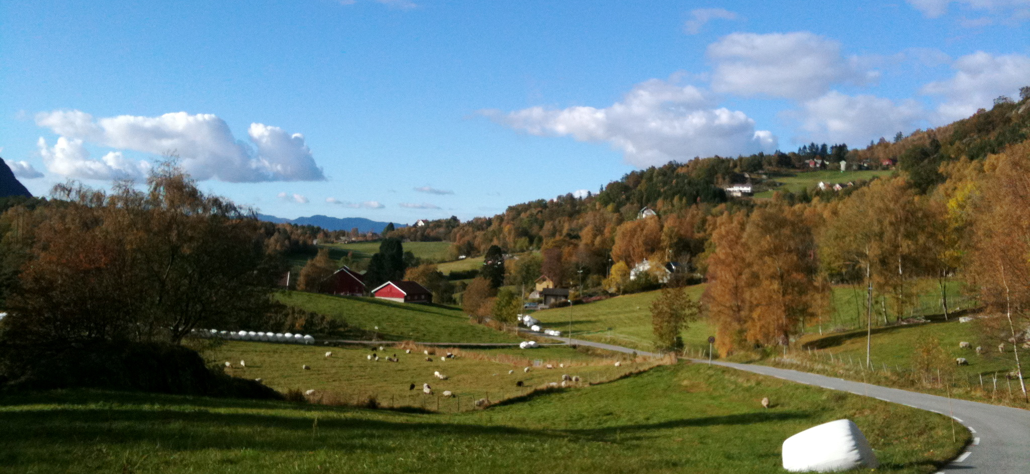 Skiftun in the municipality of Hjelmeland in Rogaland, Norway